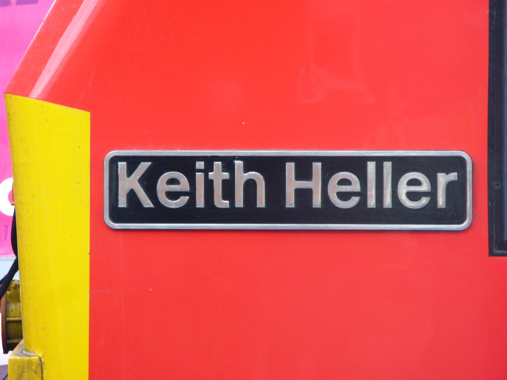 The nameplate of DB Schenker's 67018 Keith heller, named after one of their former senior employees.